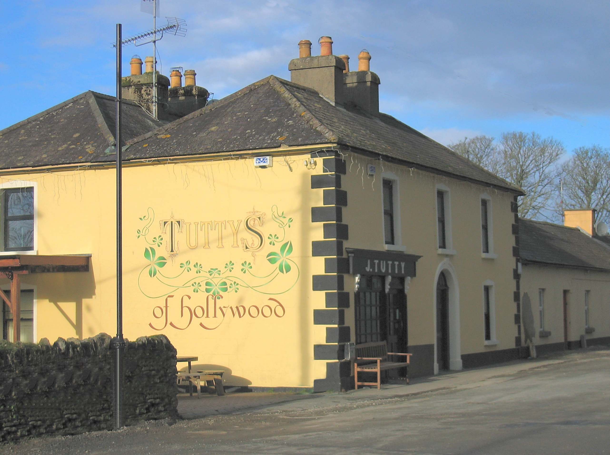 original File:IMG OldVillageHollywood4971w.jpg retouched by Suckindiesel 12:26, 19 February 2007 (UTC)